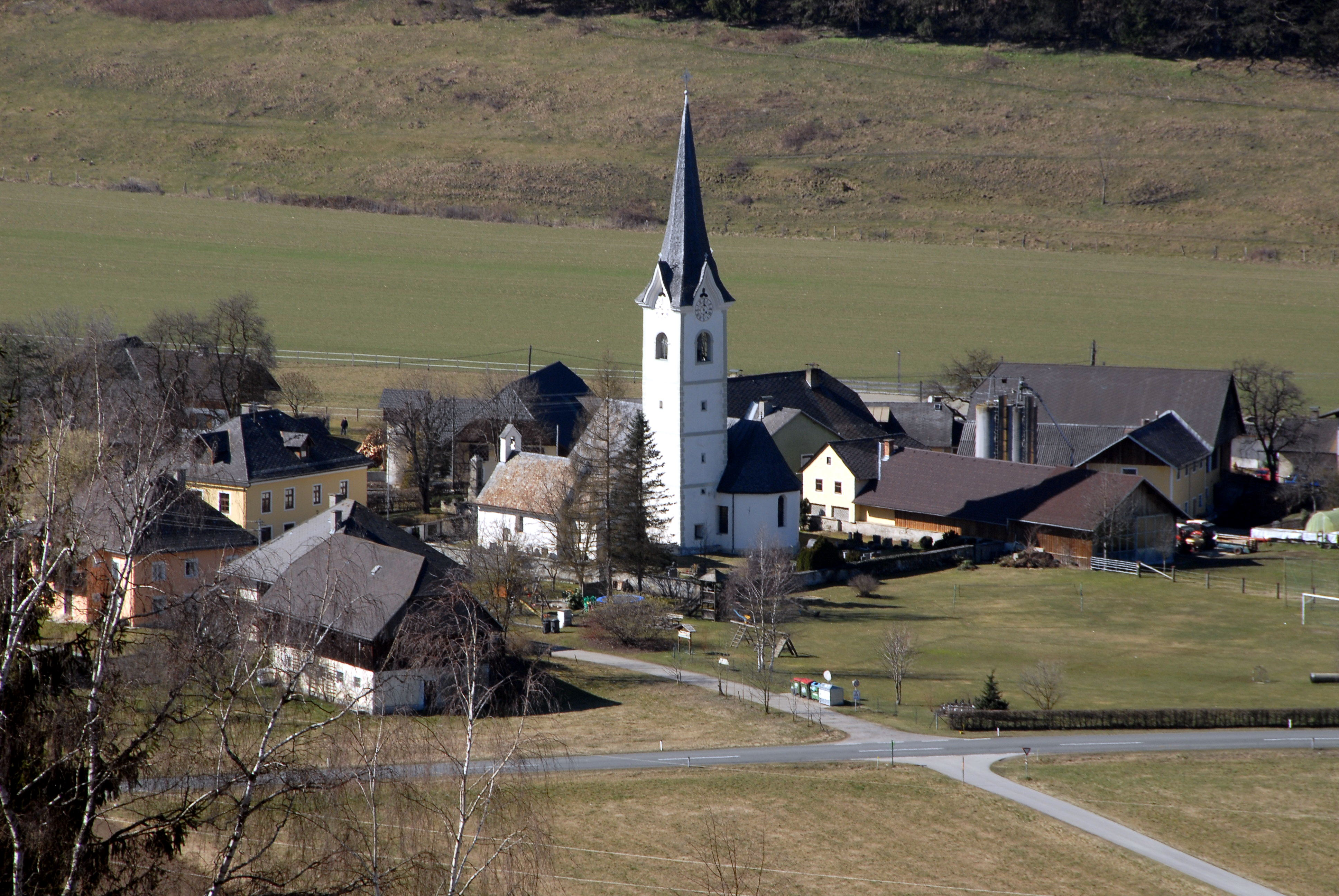 Parish church Saint John the Baptist and subsidiary church Saint Stephen with cemetery in Zweikirchen #1, market town Liebenfels, district Sankt Veit, Carinthia, Austria, EU